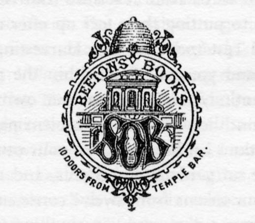 Logo of the English publisher Beeton's Books, aka S.O. Beeton, in use in the 1860s.